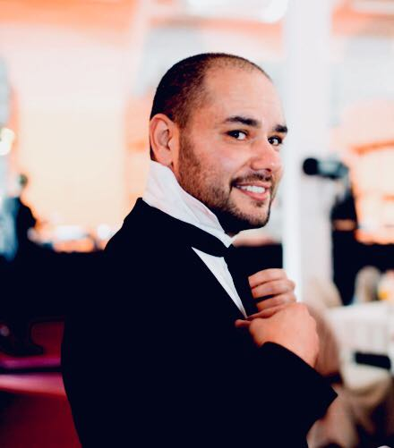 Director Andriano Cutraro